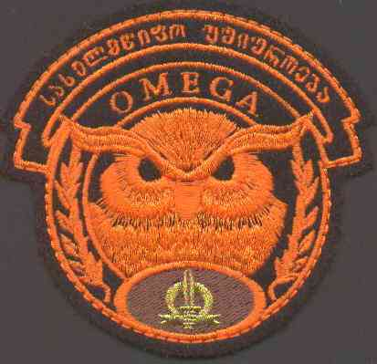 Omega Special Task Force unit patch